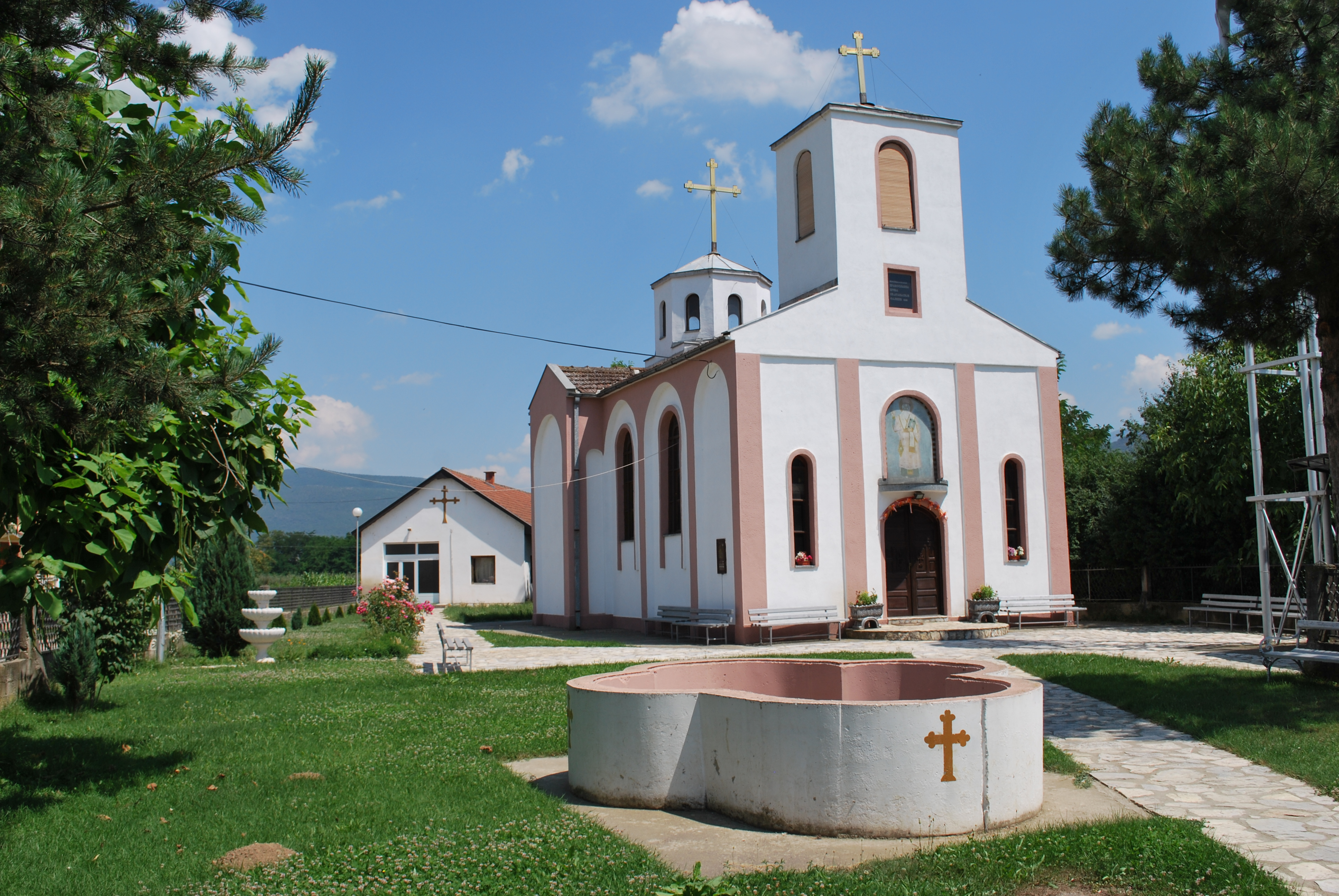 St. Athanasius Church in Fališe, Macedonia